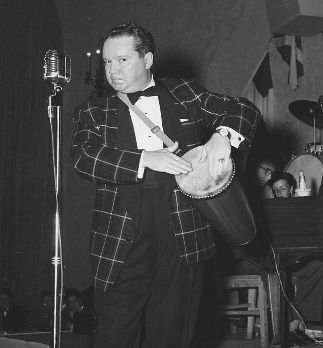 Photo of radio actor Bill Thompson performing for a US Navy benefit in 1953. Thompson was probably best-known for the many roles he played on the Fibber McGee and Molly radio show.